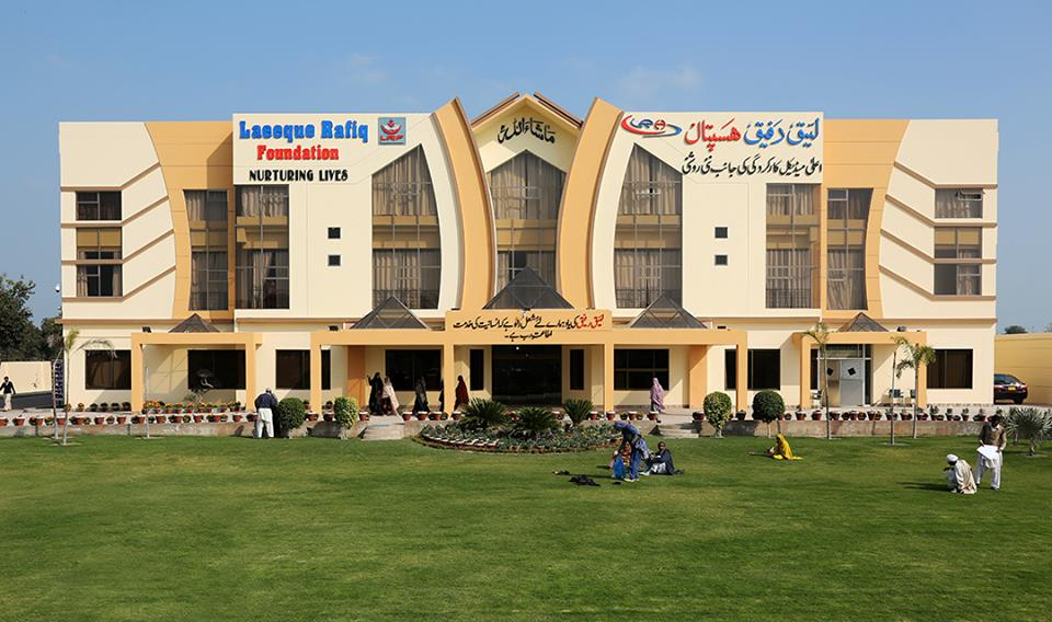 laeeq rafiq Hosipital